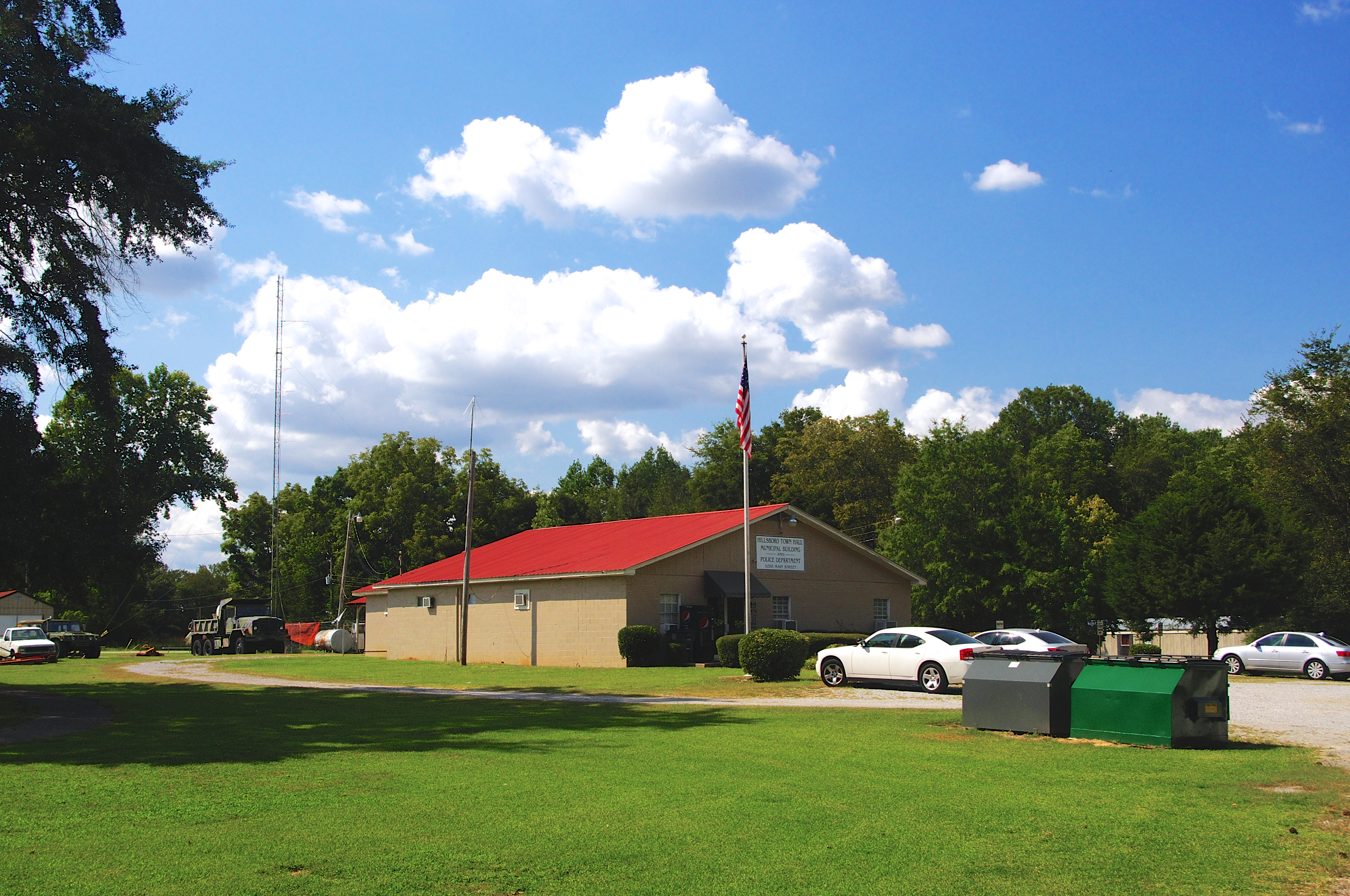 Town Hall and Municipal Building in Hillsboro, Alabama, United States.